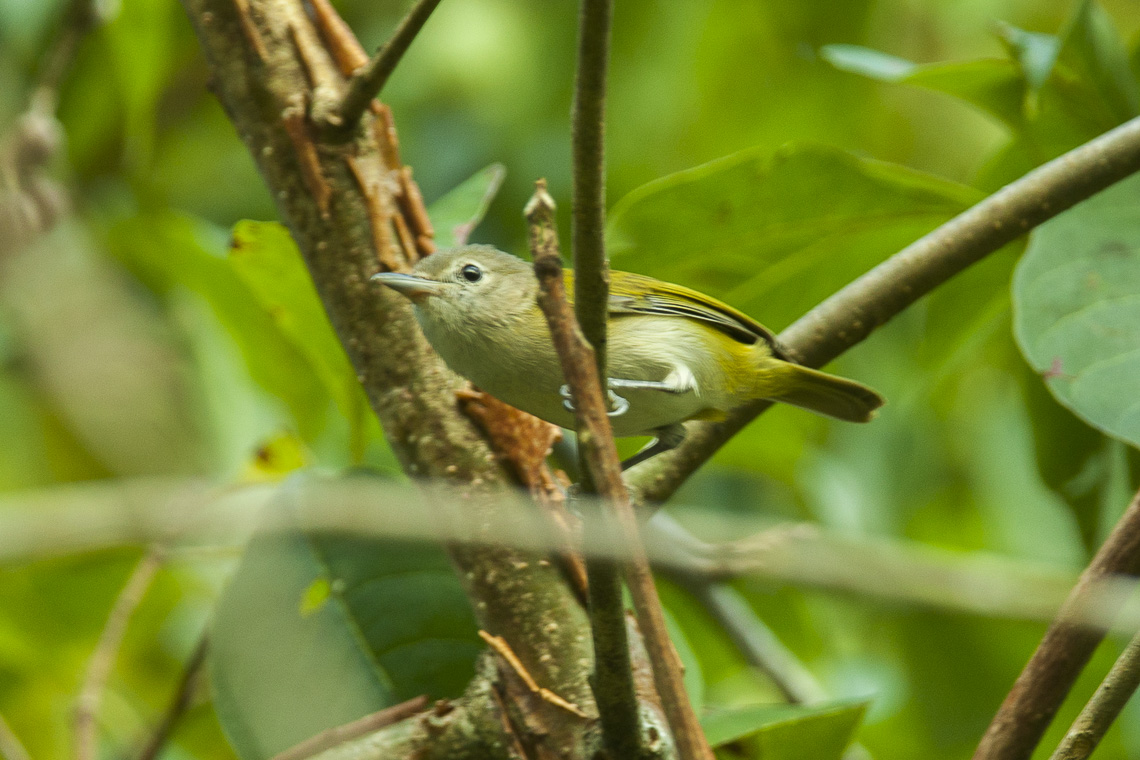 Golden-fronted Greenlet - Panama_MG_2230